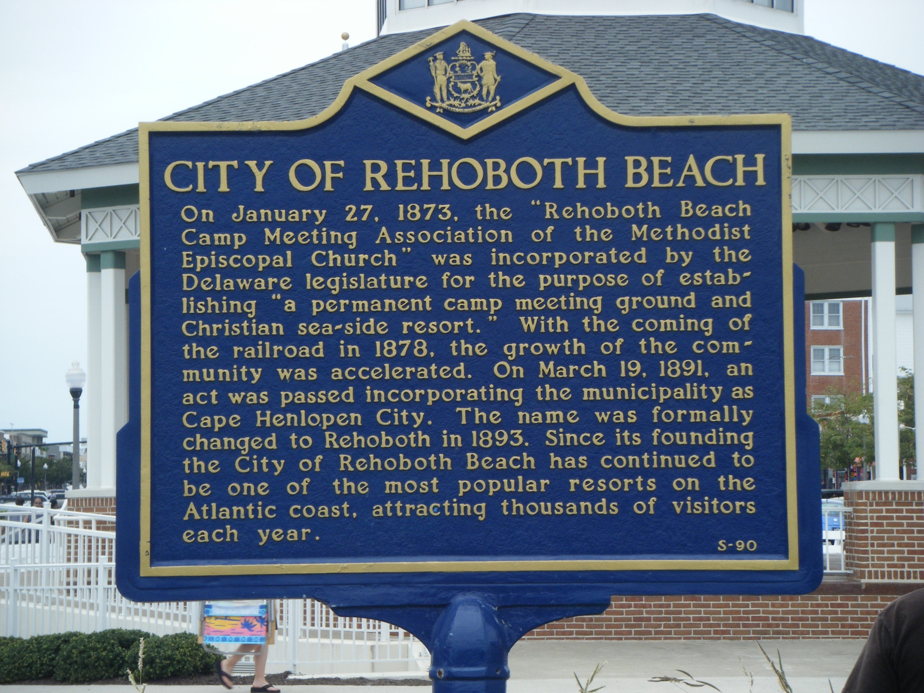 A Delaware historical marker showing the history Rehoboth Beach. This marker is located along Rehoboth Avenue near the boardwalk